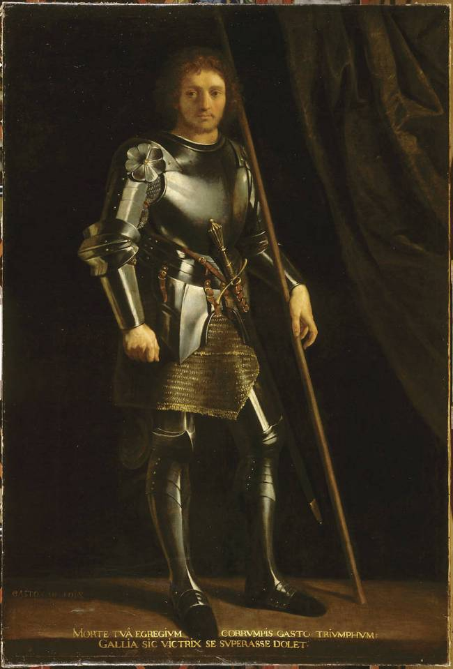 Gaston of Foix, Duke of Nemours (1489-1512), army commander of King Louis XII of France in the first italian war. (19th century depiction).